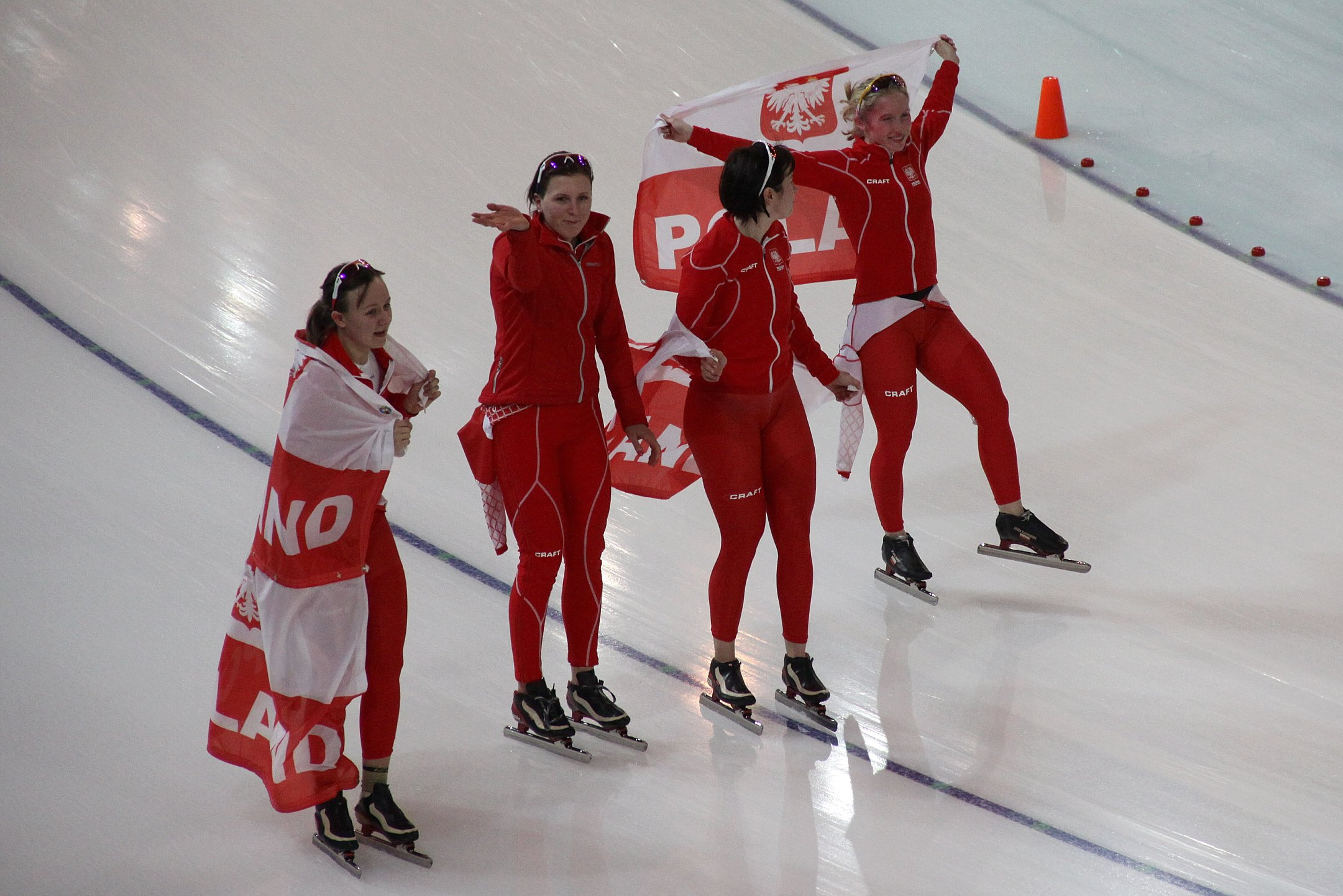 Ladie's Pursuit Bronze Winners. From left: Katarzyna Woźniak, Natalia Czerwonka, Katarzyna Bachleda-Curuś and Luiza Złotkowska